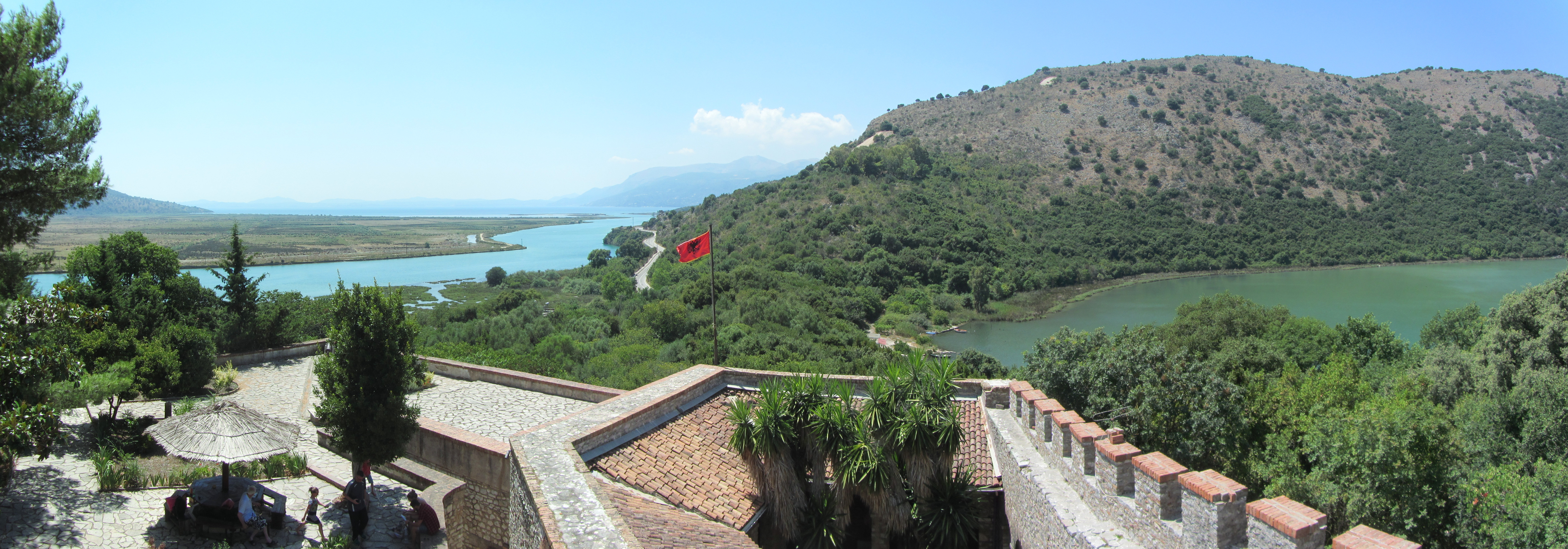 Butrint, Butrint National Park Albania 2016